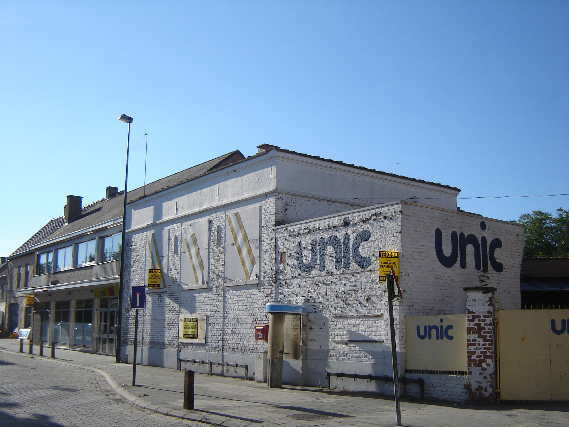 Former Unic supermarket in Eernegem. Eernegem, Ichtegem, West Flanders, Belgium